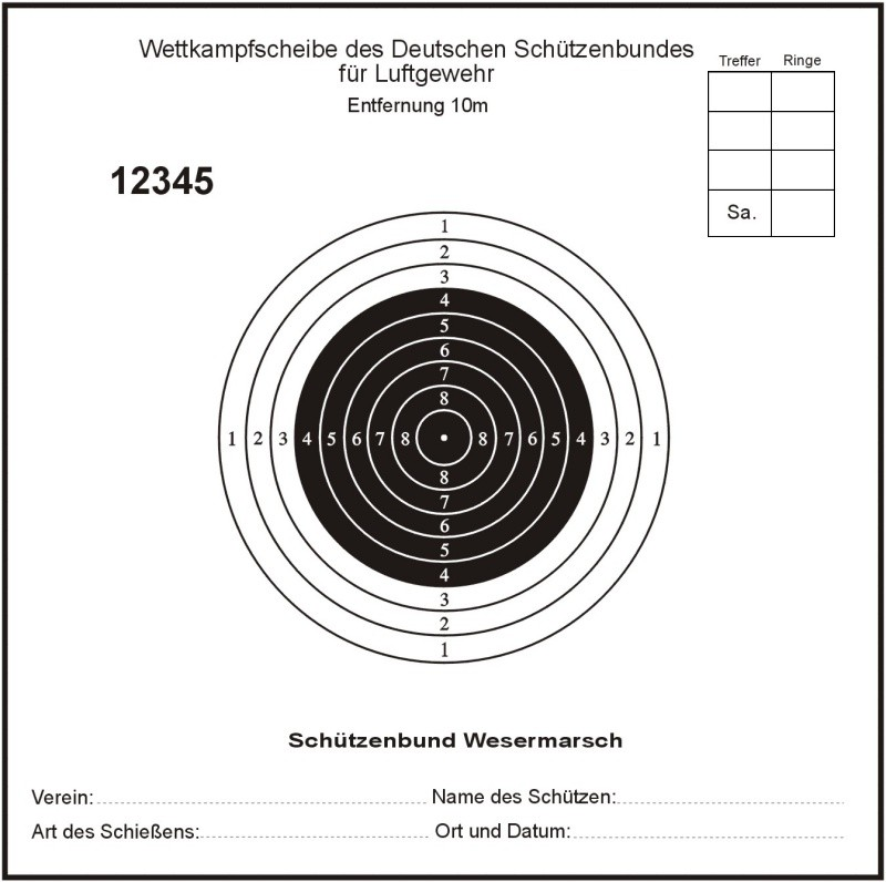 Target for 10m Air-rifle-shooting picture: Wilfried Wittkowsky, 2005